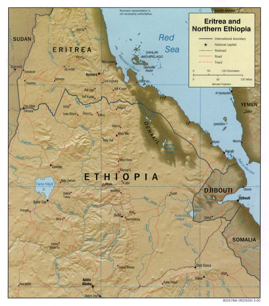 Shaded relief map of Eritrea.